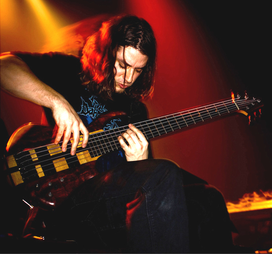 Nick Schendzielos from the American band Cephalic Carnage, 2009.